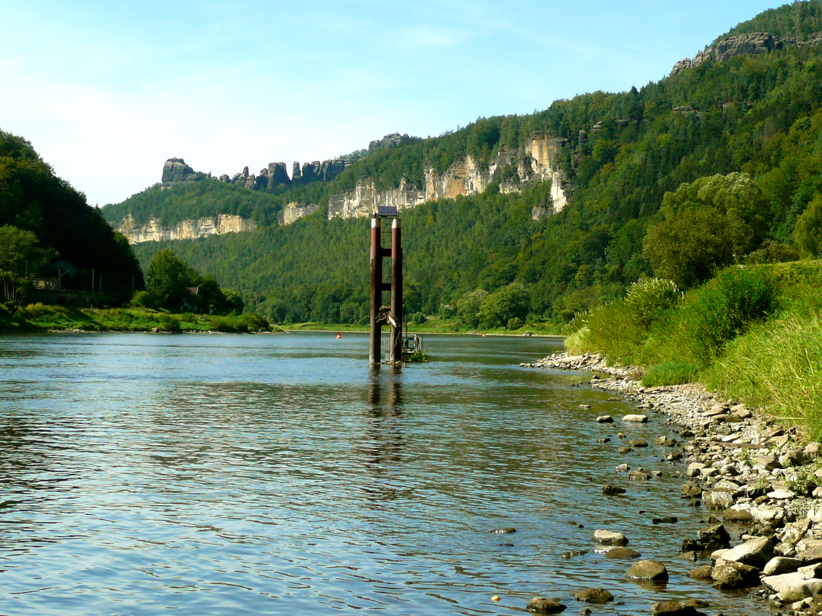 The Elbe river near the Czech border, in Schmilka (Bad Schandau). The Saxon Switzerland cliffs in bakground.